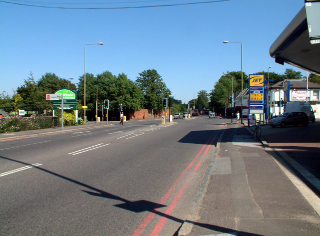 Croydon Road, Keston (A232) junction with A233, looking east; Oakley Road to the left (north), Westerham Road to the south. At grid reference TQ419651. A Wyevale garden centre is northwest of the crossroads, with a Jet filling station to the southwest. The site of the former Keston Mark pub southeast of the crossroads is being redeveloped for "exclusive" dwellings (i.e. anyone, presumably, with the requisite dosh).